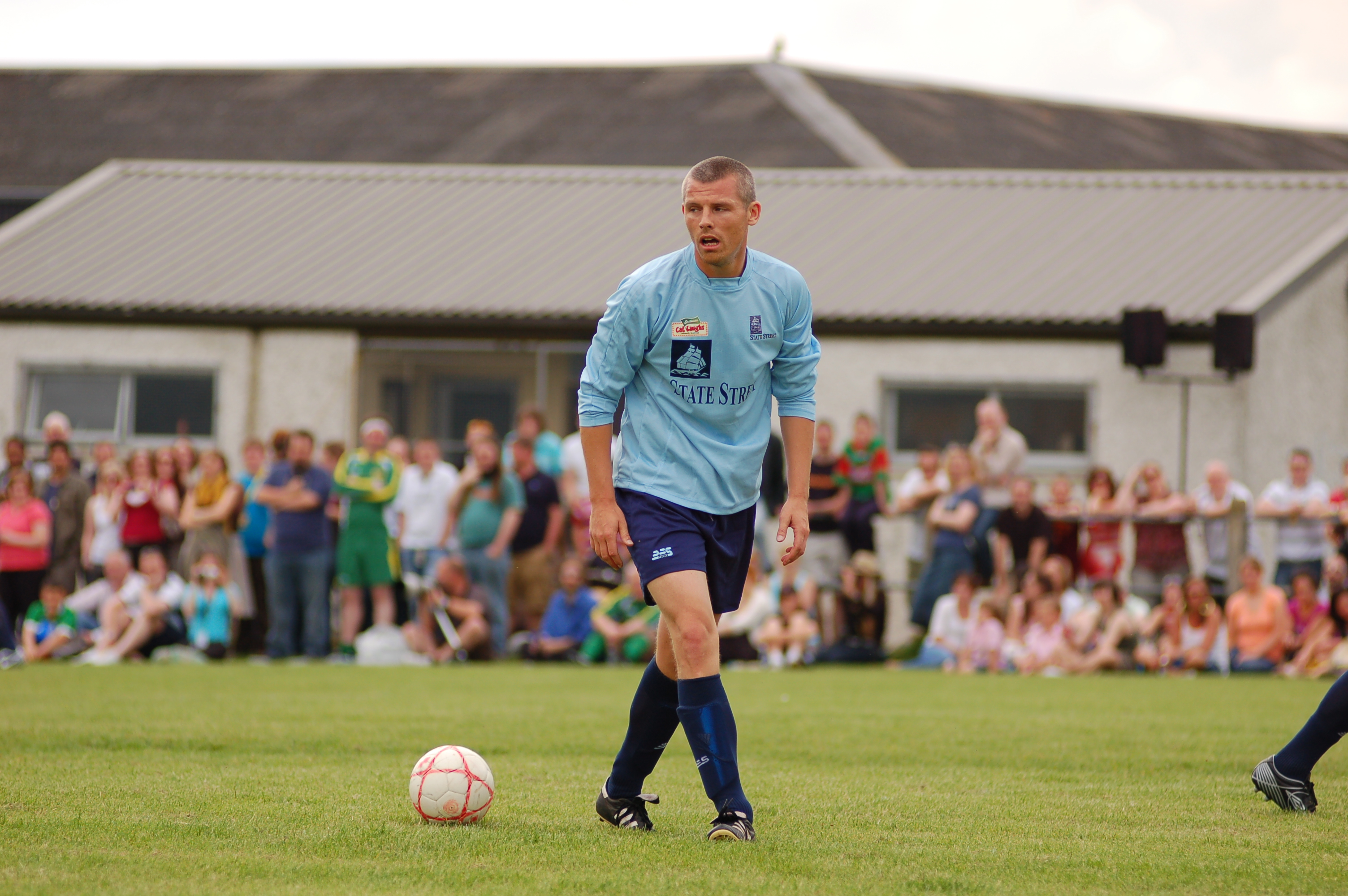 Comedian Des Bishop playing soccer at the Cat Laughs comedy festival in Kilkenny, Ireland on June 1 2008